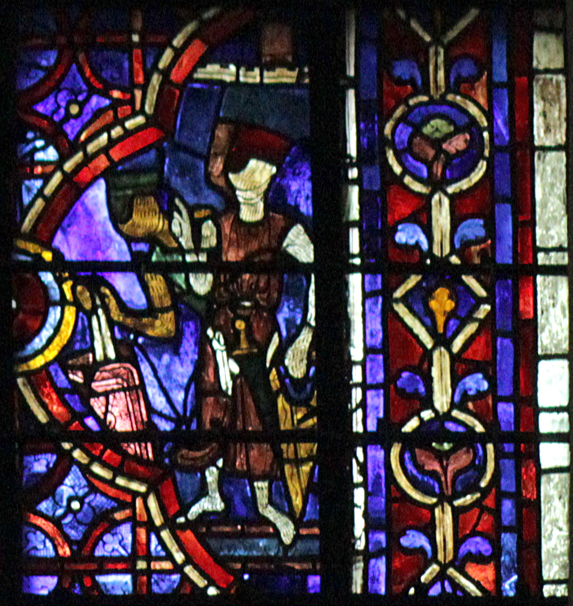 Bay 18 of Chartres cathedral : Life of saint Thomas Becket.